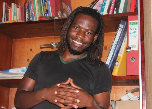 Photo taken in 2016 by Cast and Crew